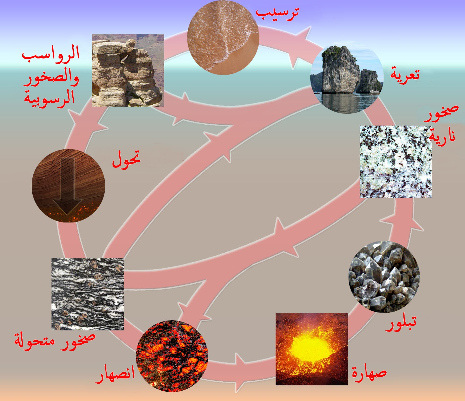 A diagram of the Rock Cycle that is modified off of Rockcycle.jpg by User:Woudloper. The changes made to this photo were made according to the conversation at where the original is being nominated for Featured Picture Status.